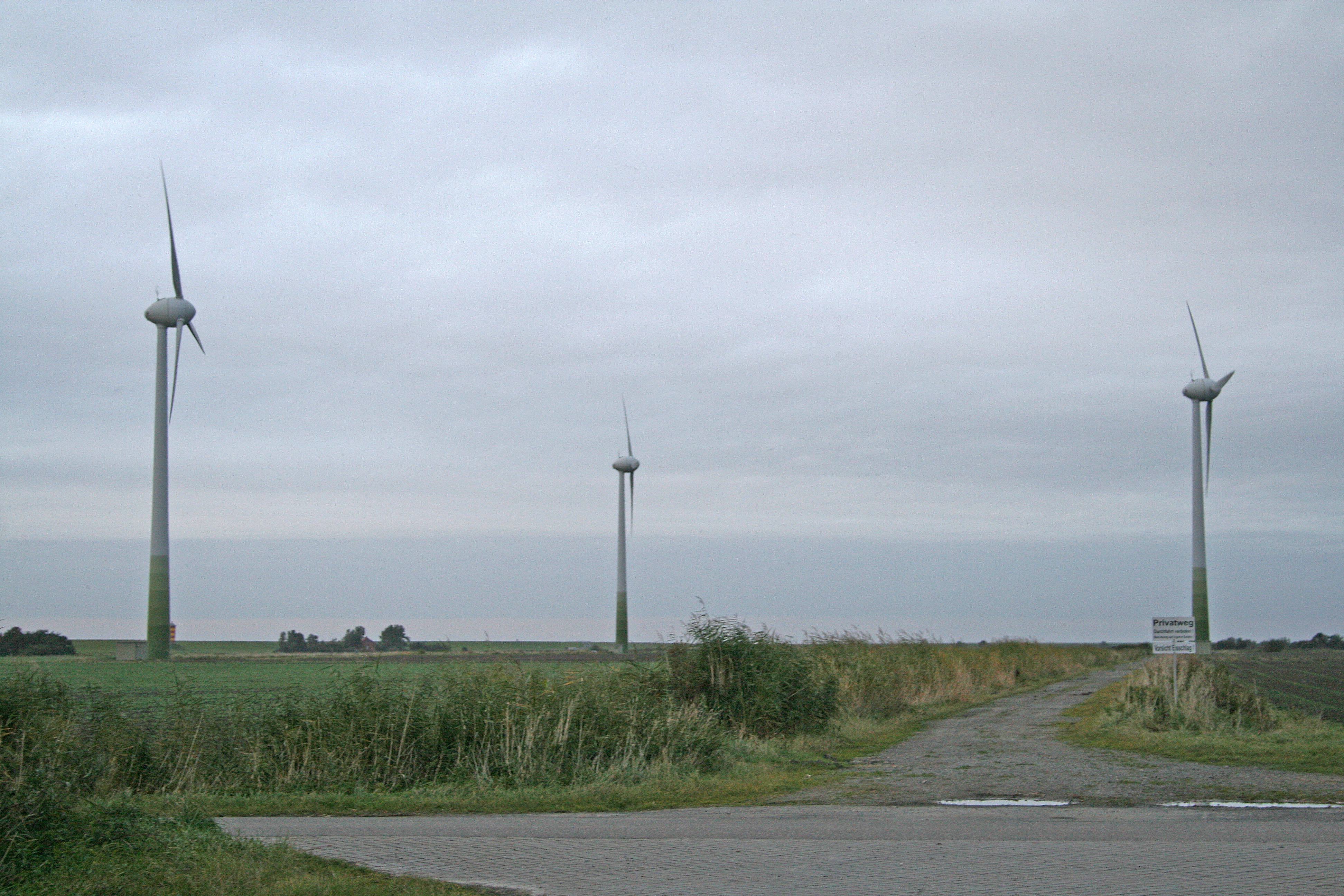 Windturbines in Pilsum